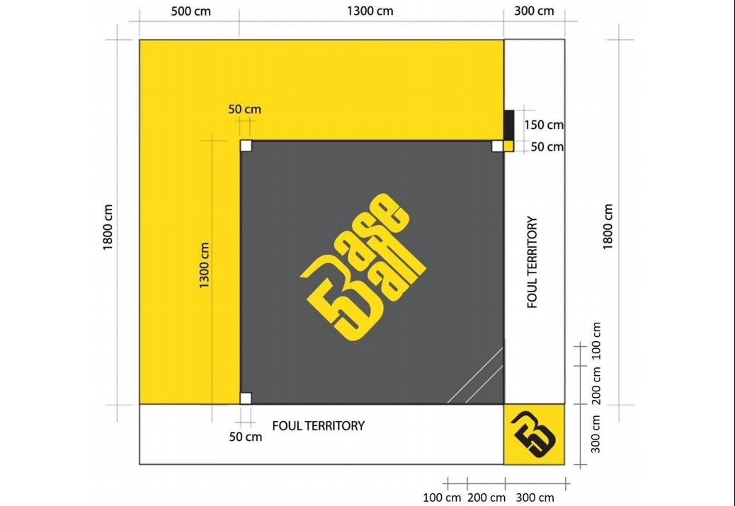 Baseball5 field